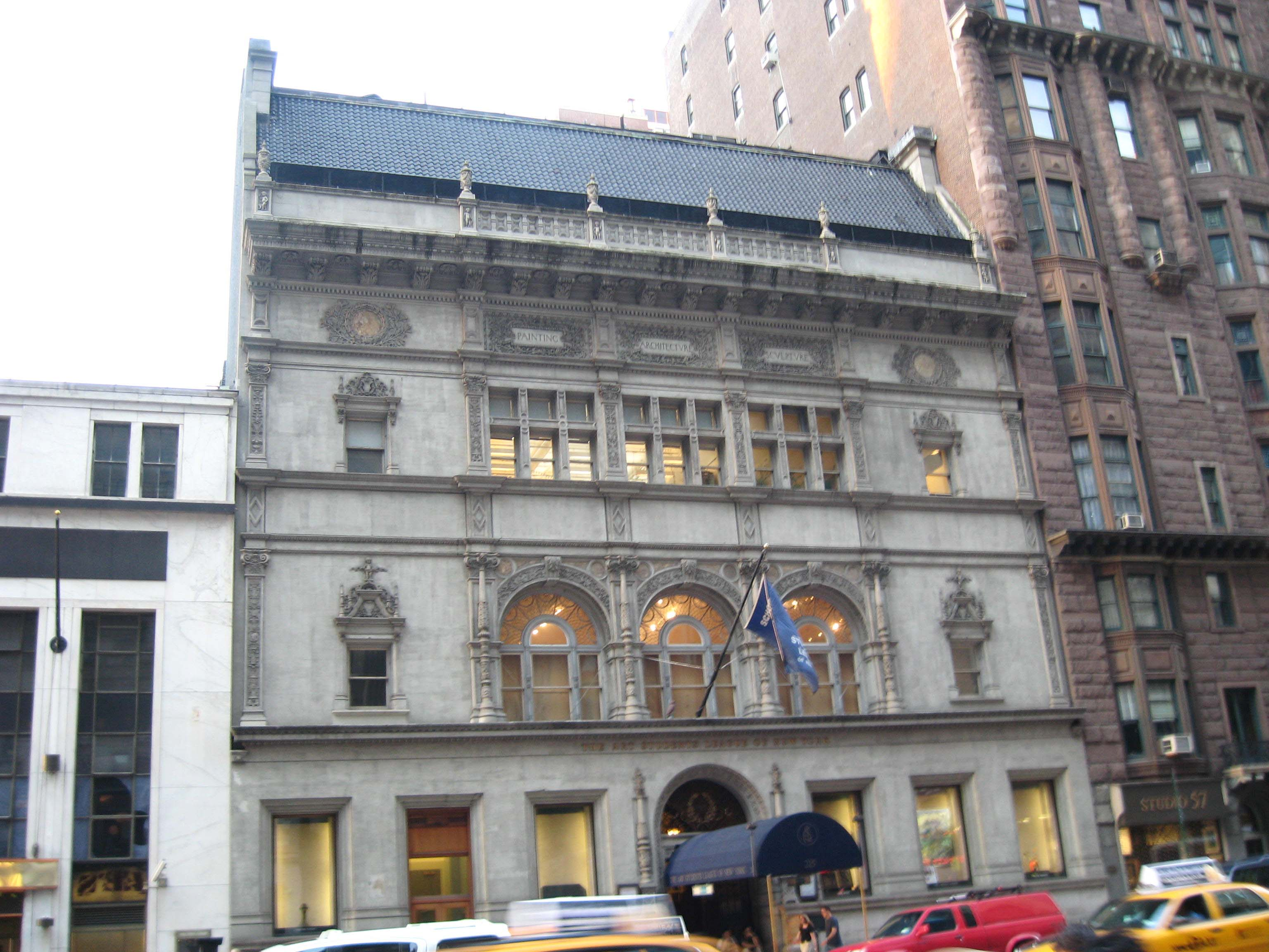 Looking northeast across 57th Street at Art Students League of New York on a sunny late afternoon